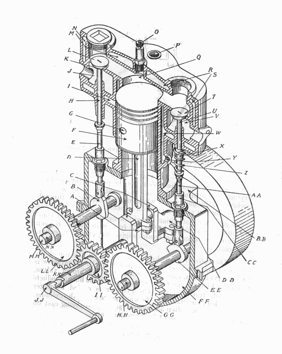 T-head single-cylinder Otto engine (Army Service Corps Training, Mechanical Transport, 1911).jpg